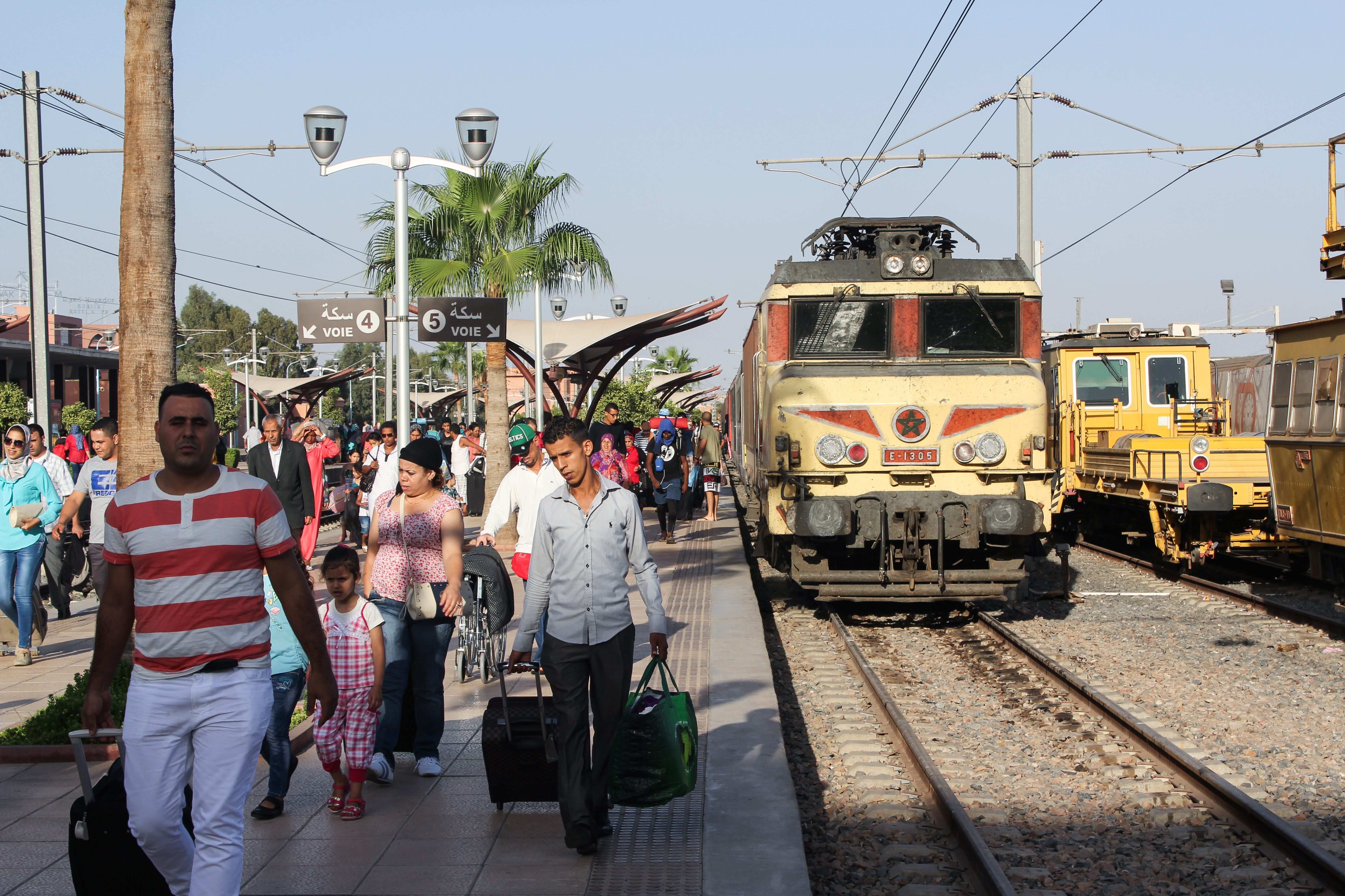 Marrakesh railway station